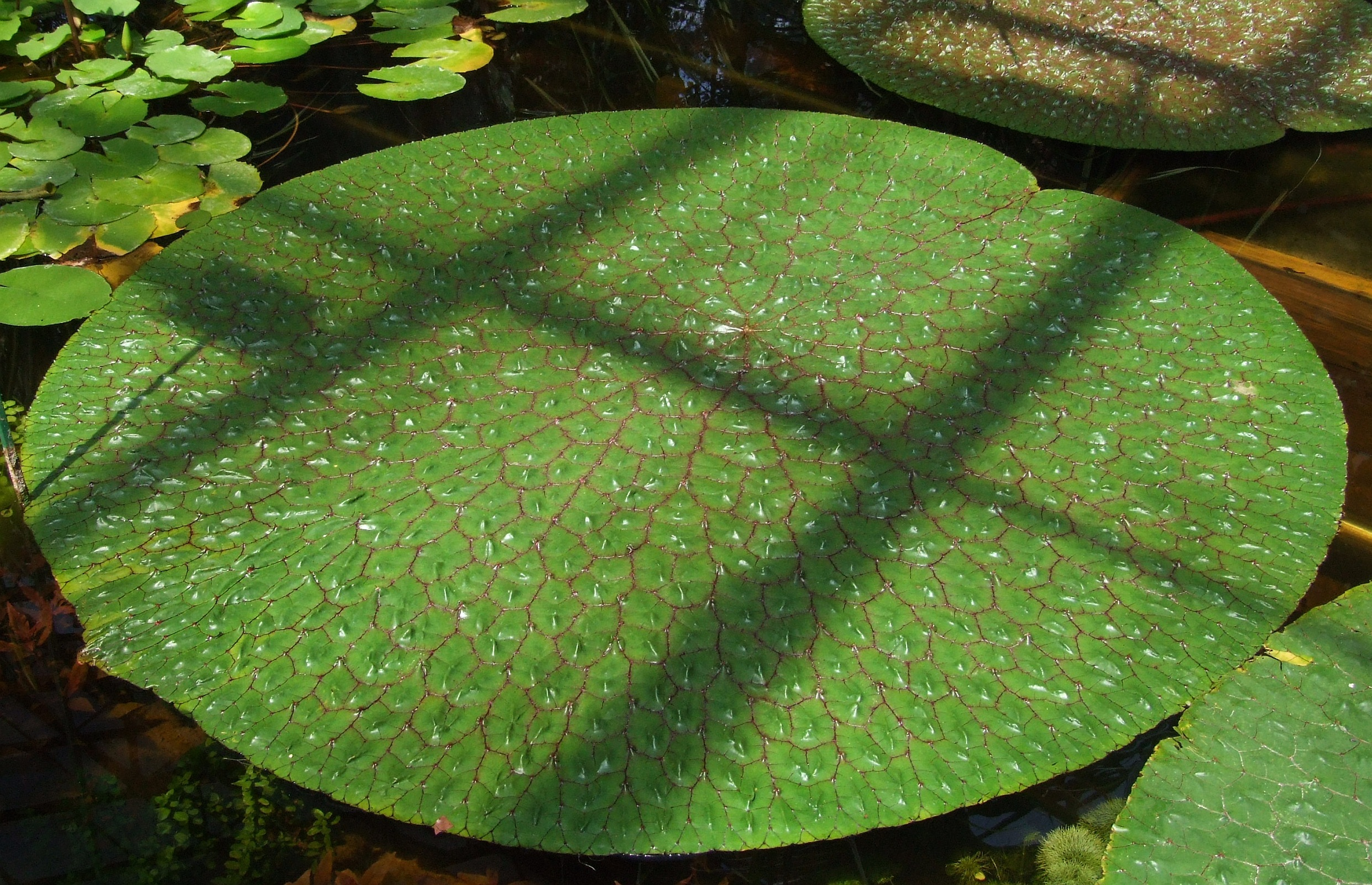 Euryale_ferox